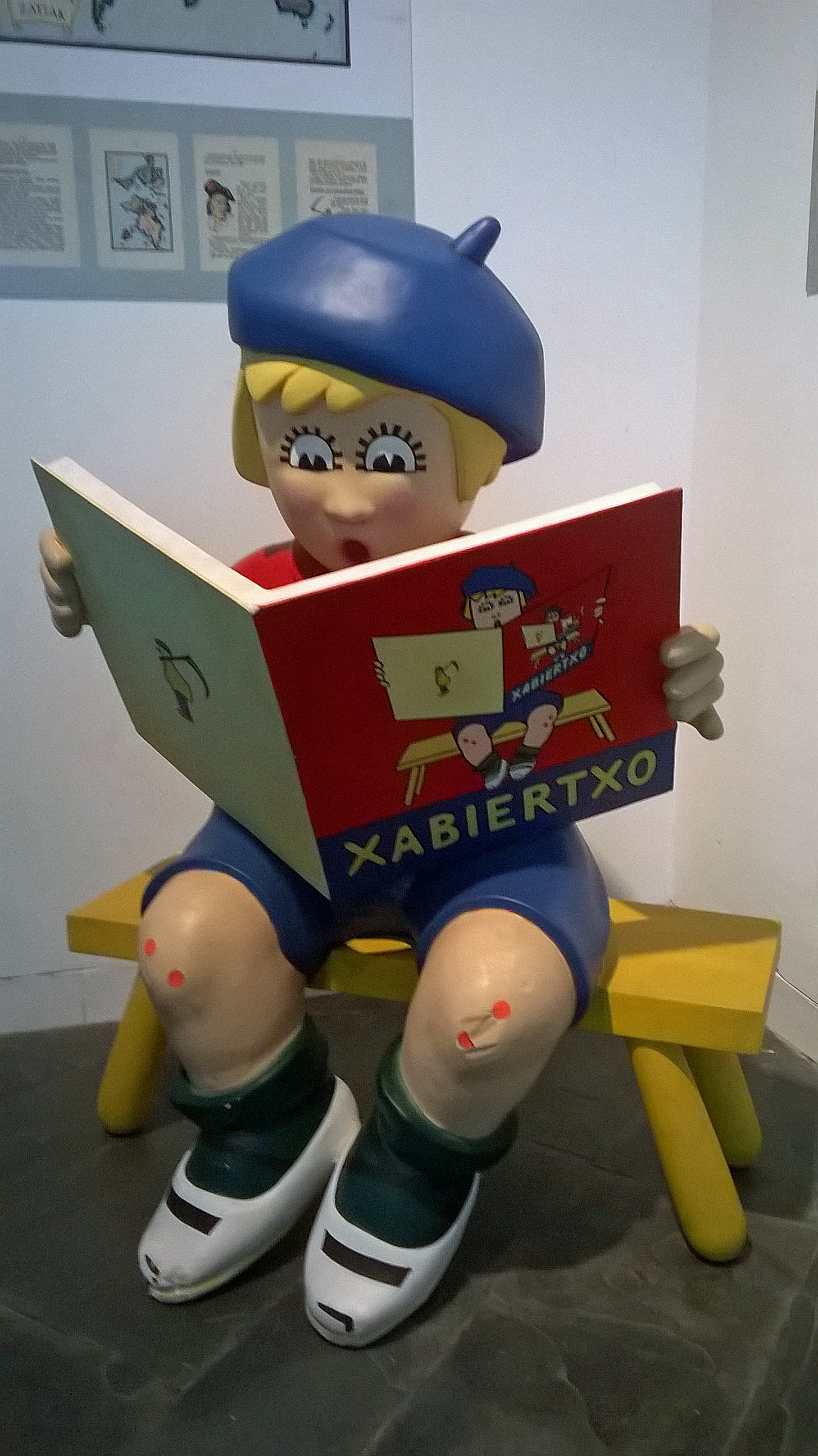 Xabiertxo (1925, Ixaka Lopez). Aranburu palace, Tolosa. Gipuzkoa, Basque Country.